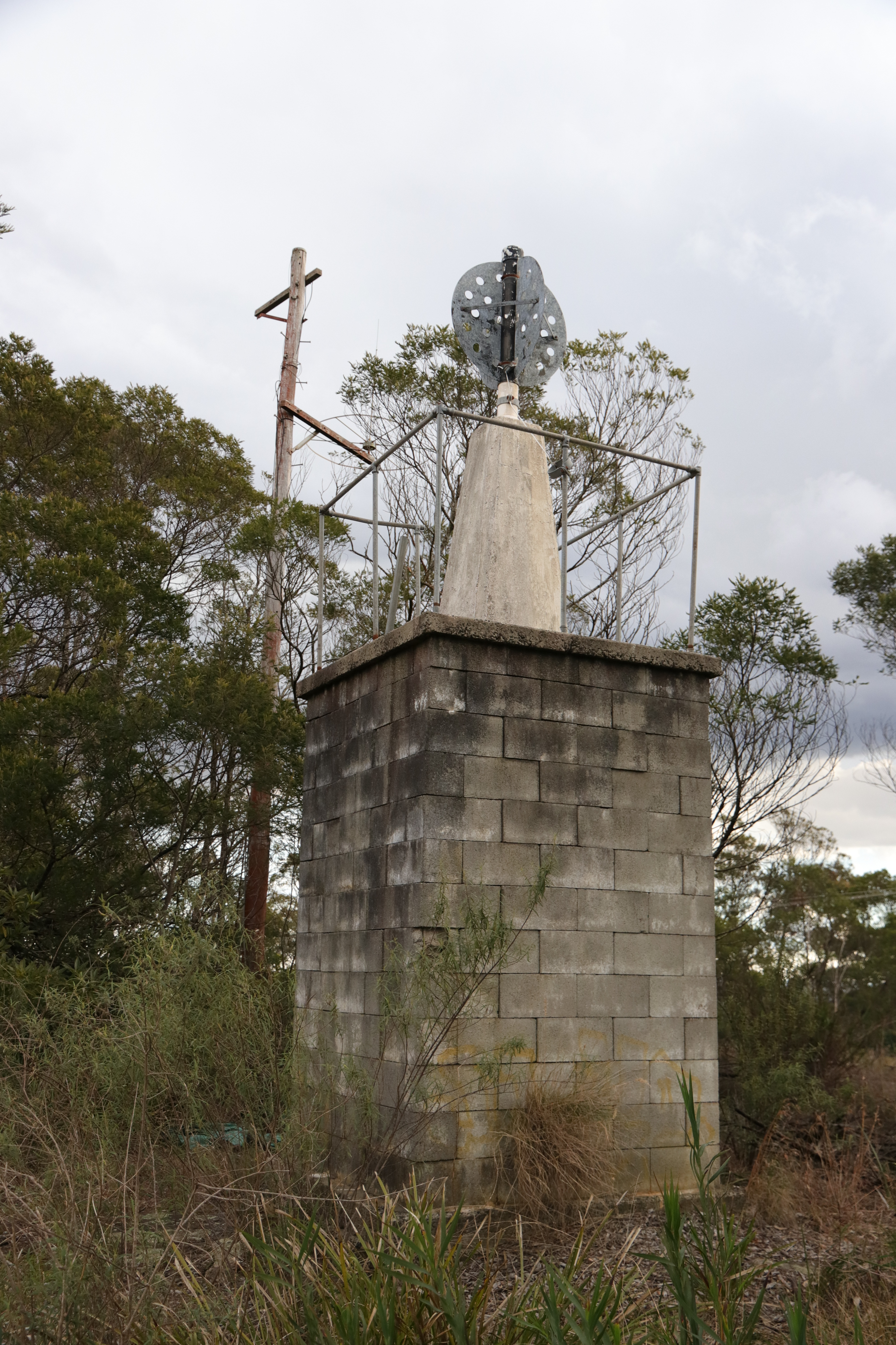 Trigonometrical station (geodetic station 'Gibraltar') situated on Mt Gibraltar, NSW, Australia.